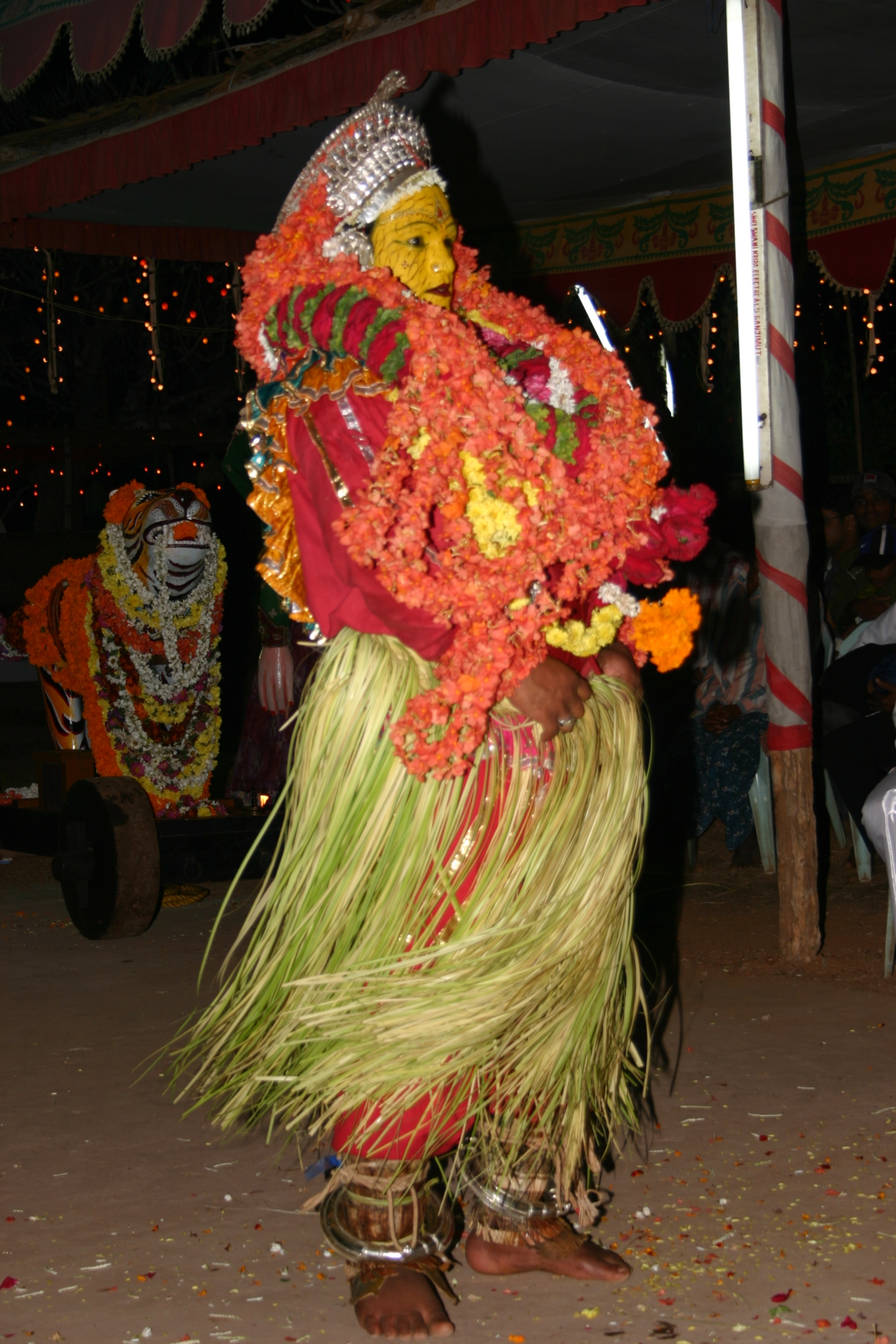 Photo of Pilichamundi Bhuta at Nellitheertha